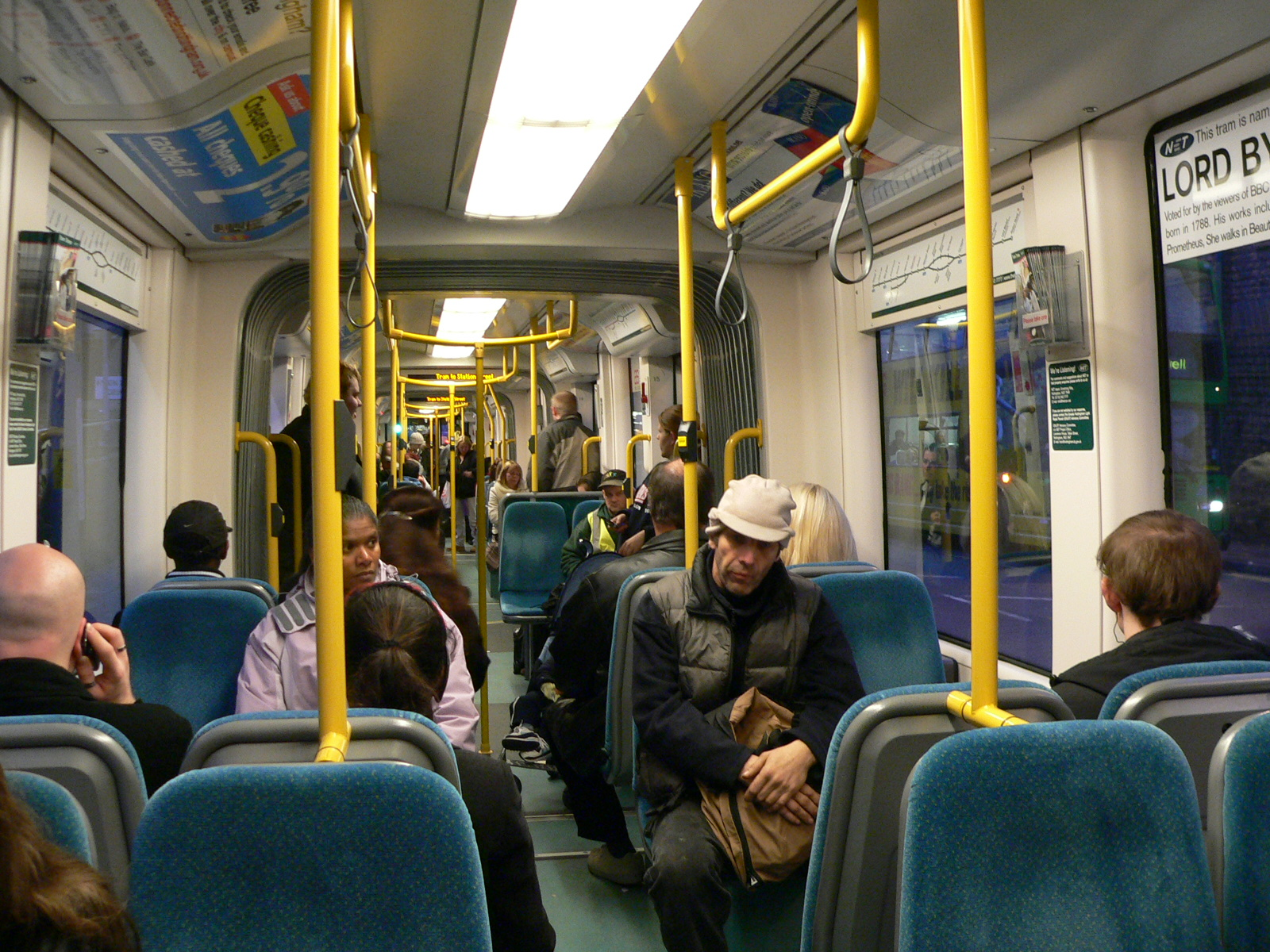 The interior of southbound Nottingham Express Transit tram 205 Lord Byron at High School stop, 14 November 2005.